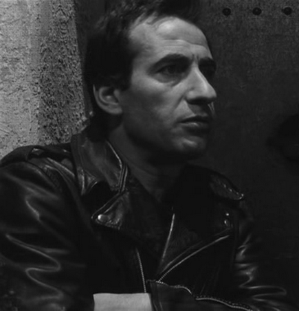 Toni Ucci in a scene of the film L'assassino